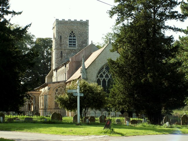 St Andrew's parish church, Cotton, Suffolk, see from east-southeast